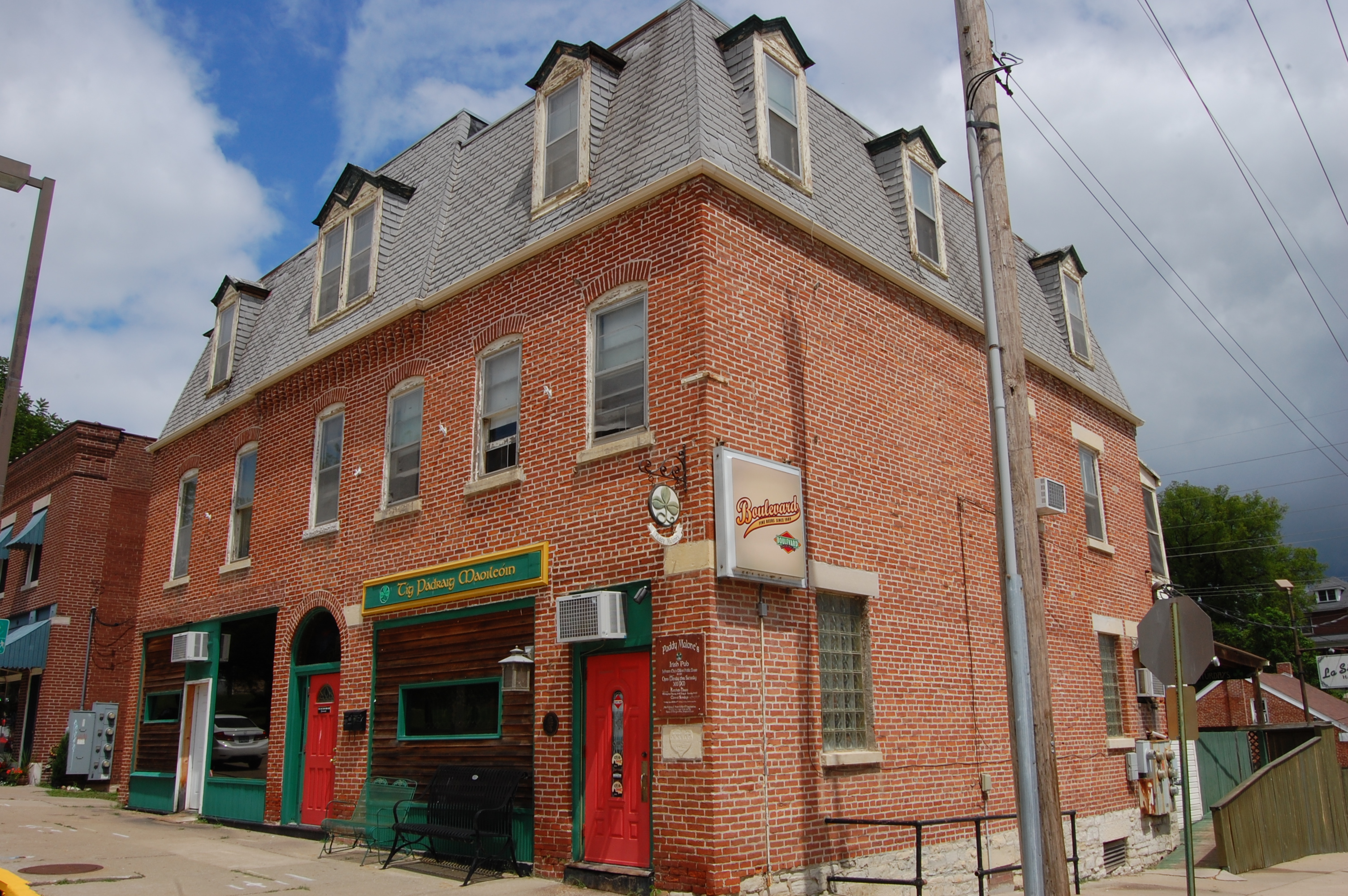 West End Saloon, 700-702 W. Main St. Jefferson City